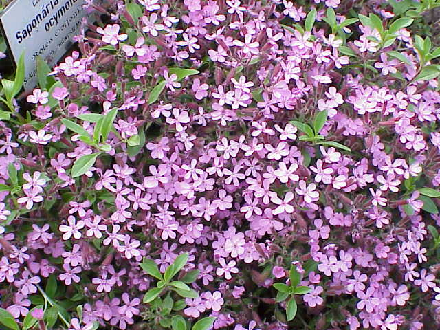 Species: Saponaria ocymoides Family: Caryophyllaceae Image No. 3